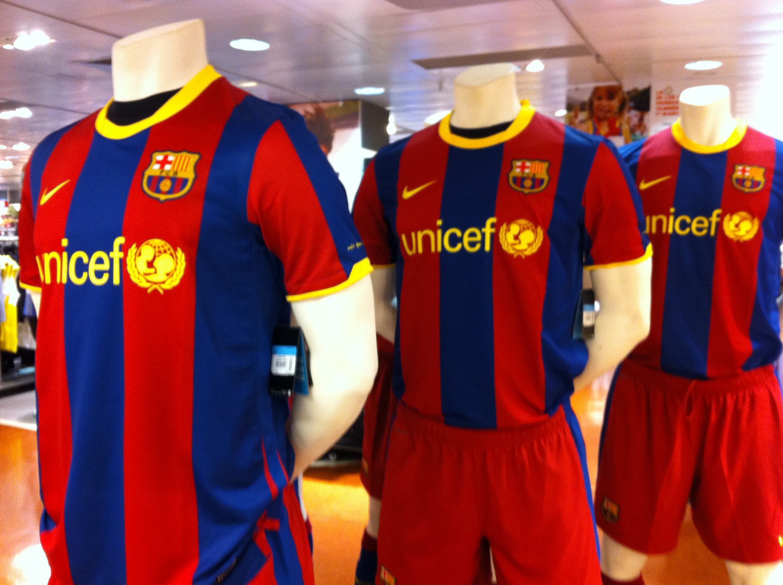 FC Barcelona 2010-11 jersey.